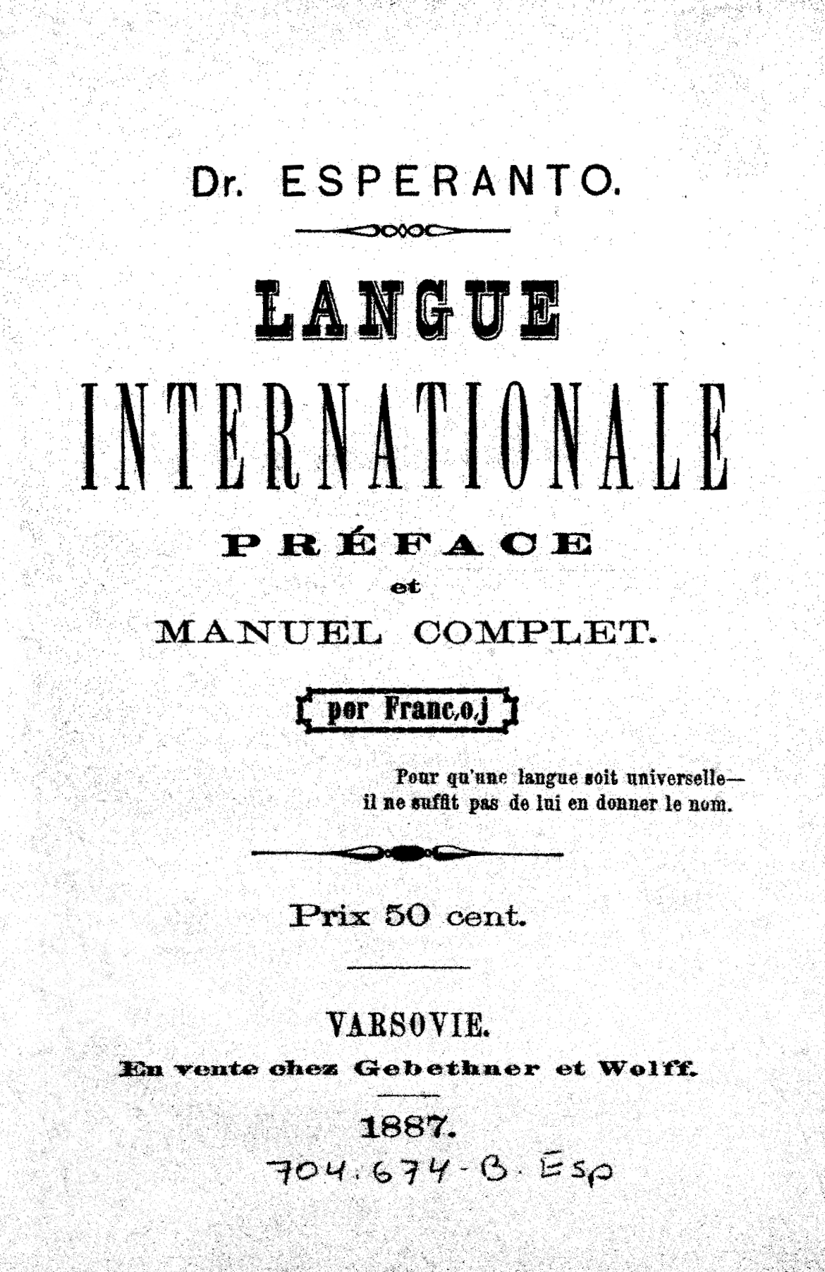 The International Language for French—the first French textbook of Esperanto